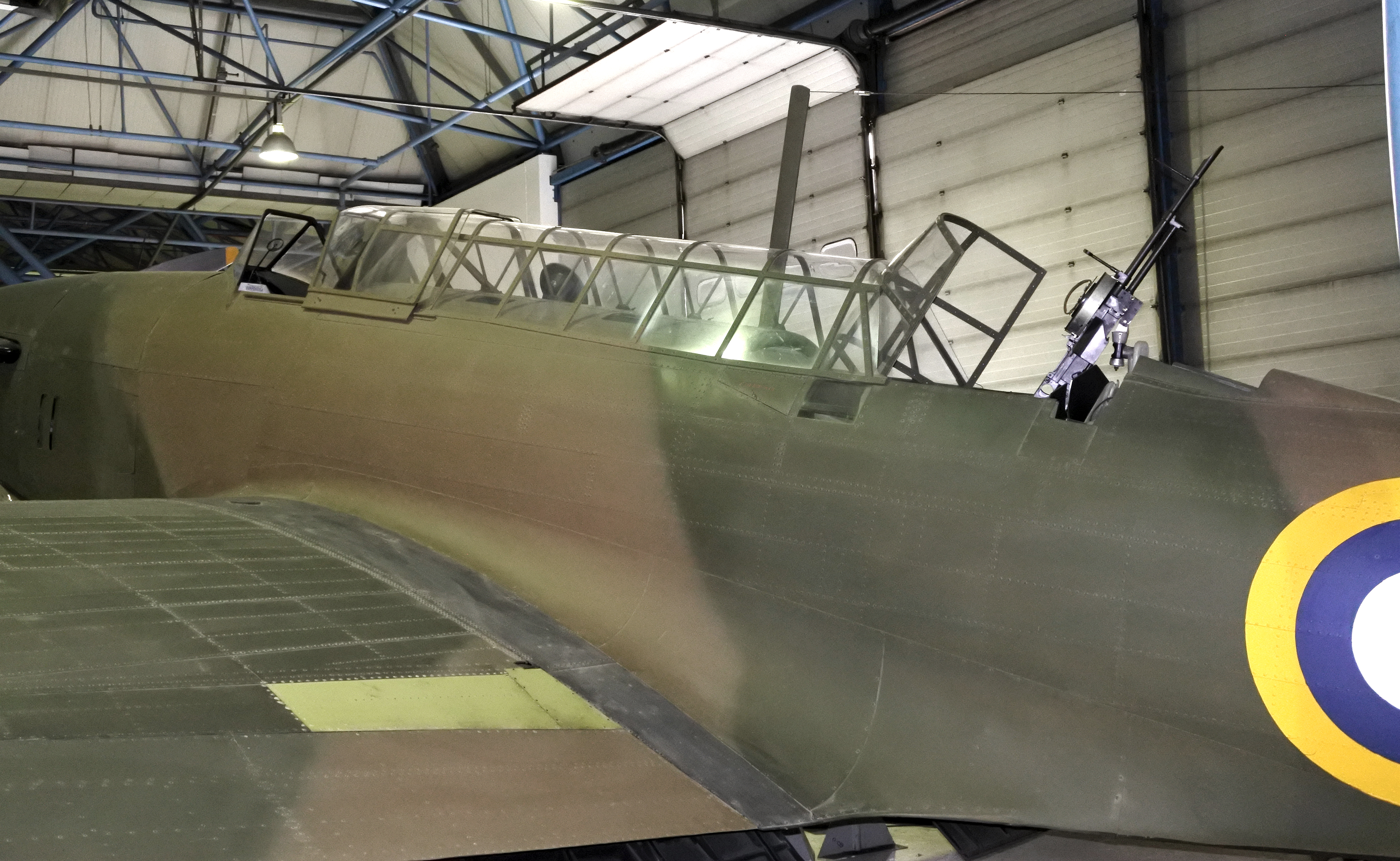 Fairey Battle cockpit; RAF Museum London.